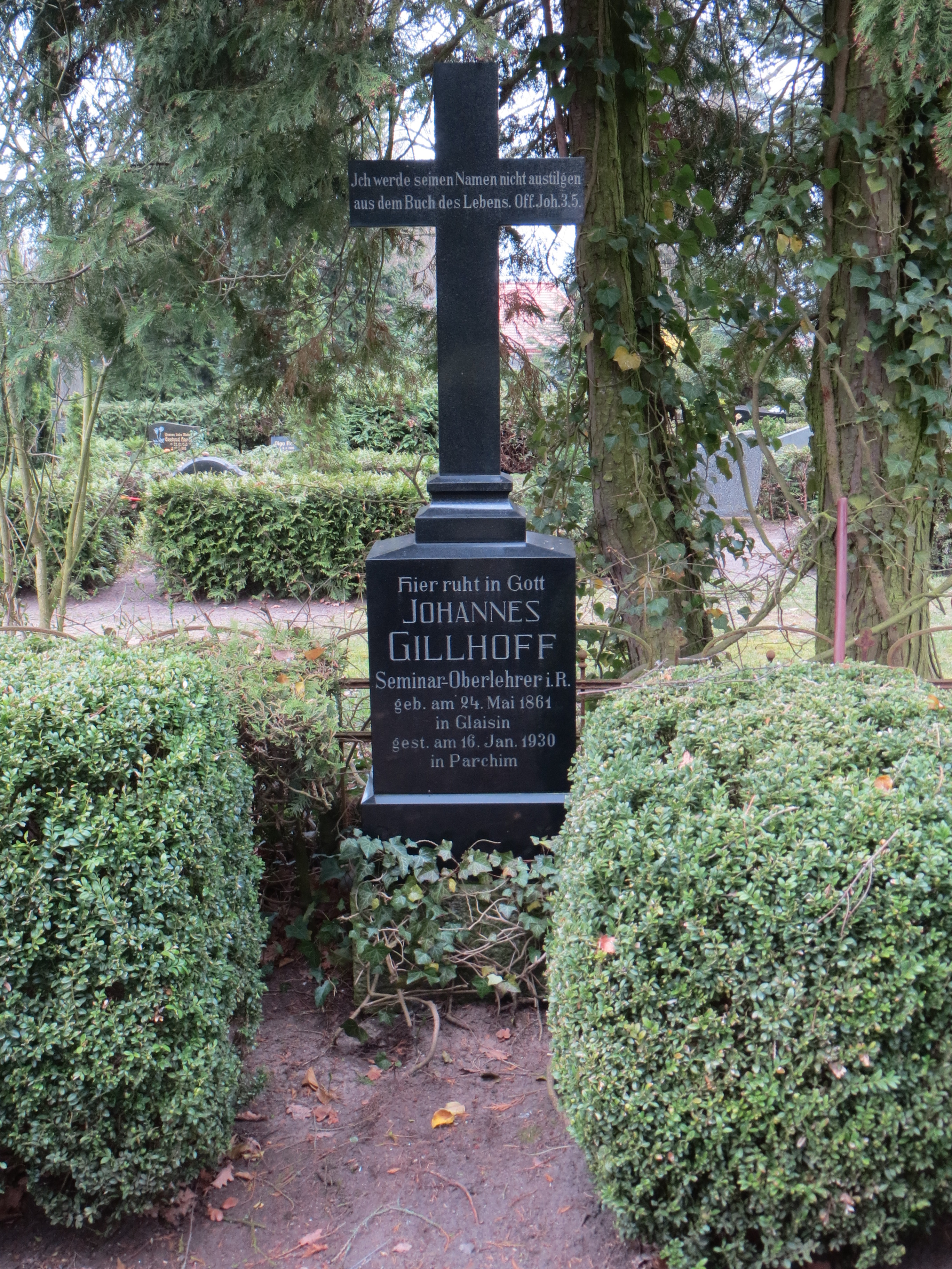 Friedhof Ludwigslust